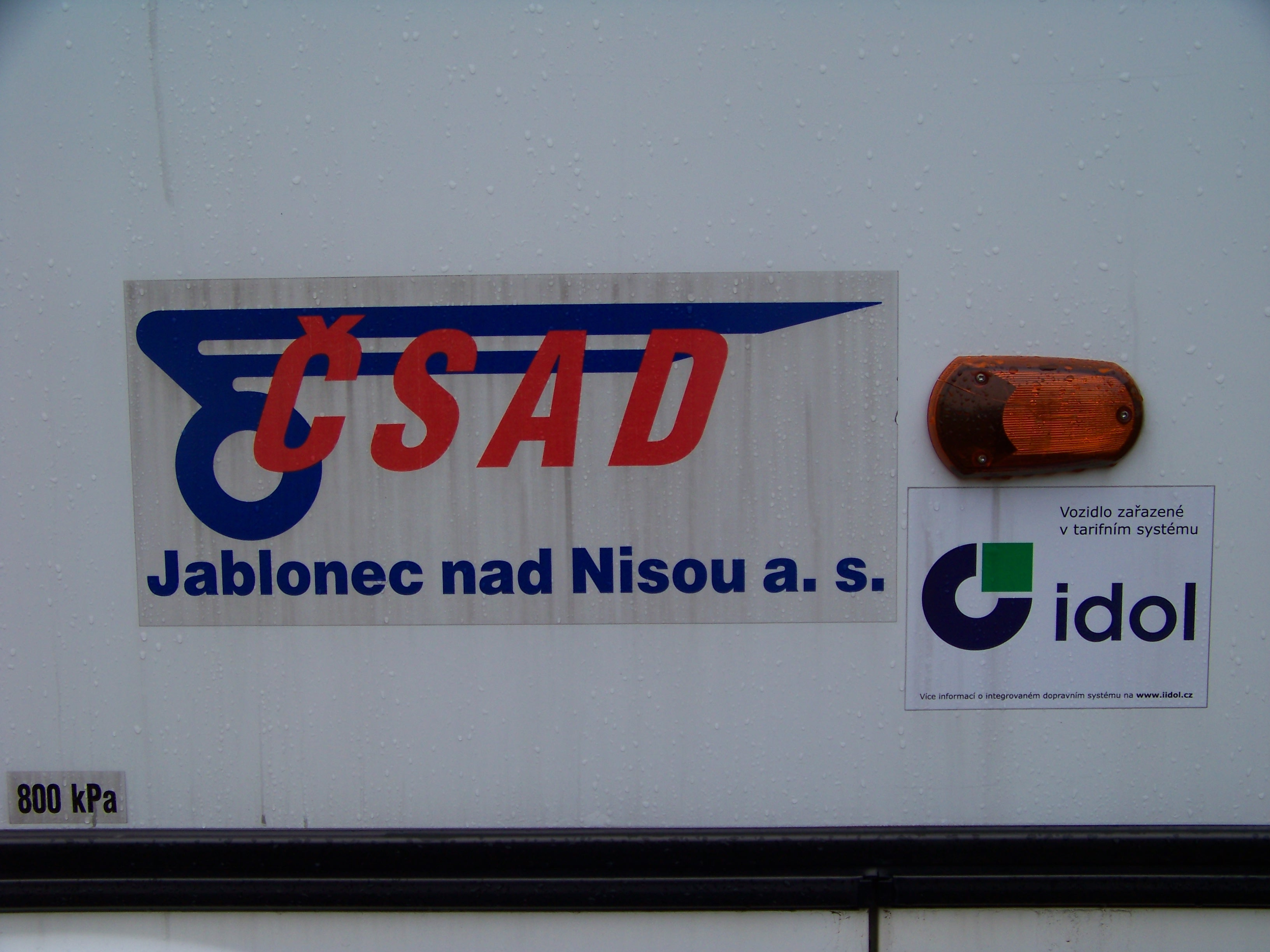 Kořenov-Příchovice, Jablonec nad Nisou District, Liberec Region, the Czech Republic. A bus.